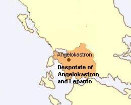 Map of the Despotate of Angelokastron and Lepanto